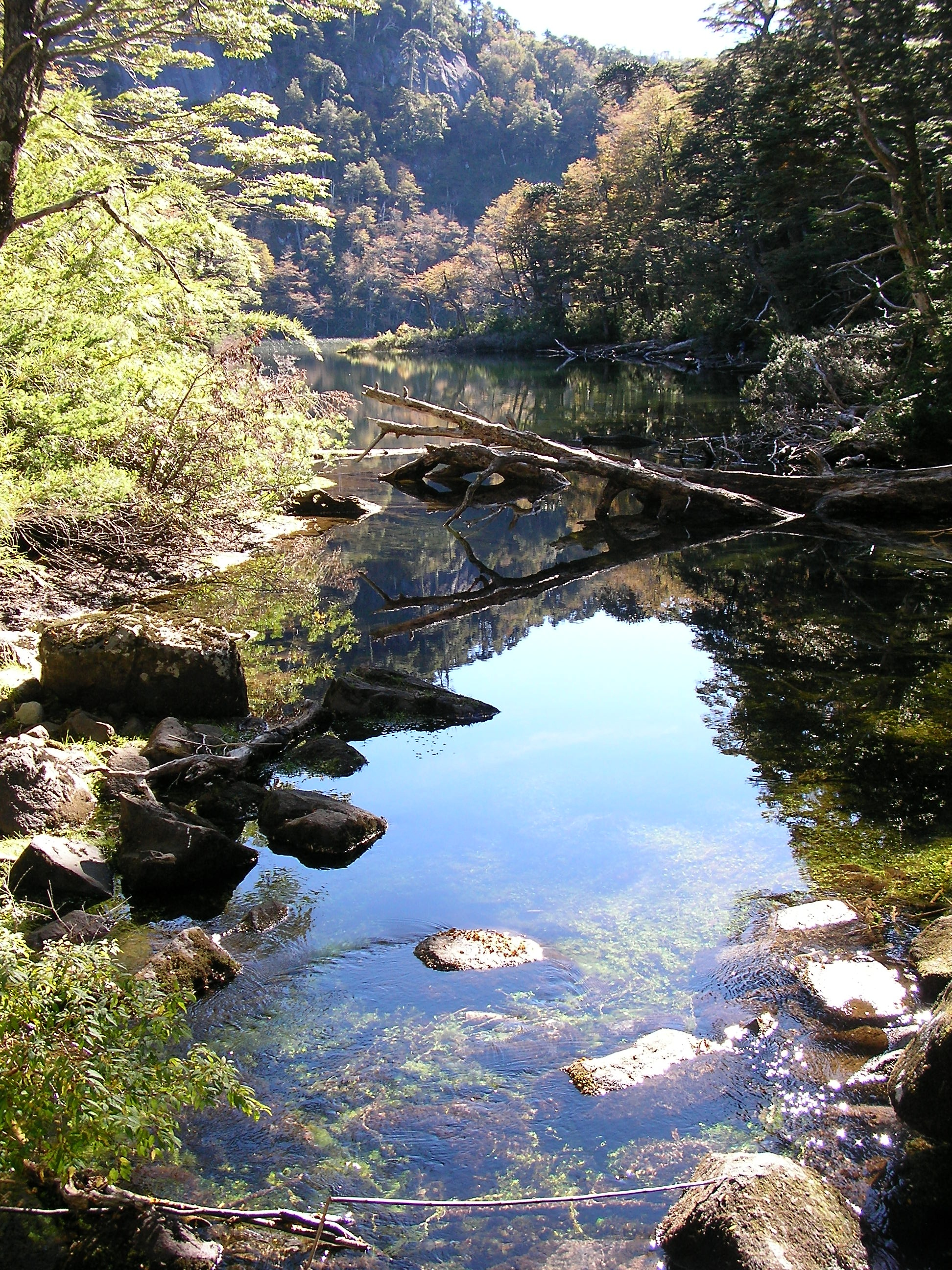 Looking north in Huerquehue National Park (Parque Nacional Huerquehue) northeast of Pucón, Chile. Camera location is east of Lago (Lake) Caburgua and north of Lago Tinquilco. Elevation 1300 meters.